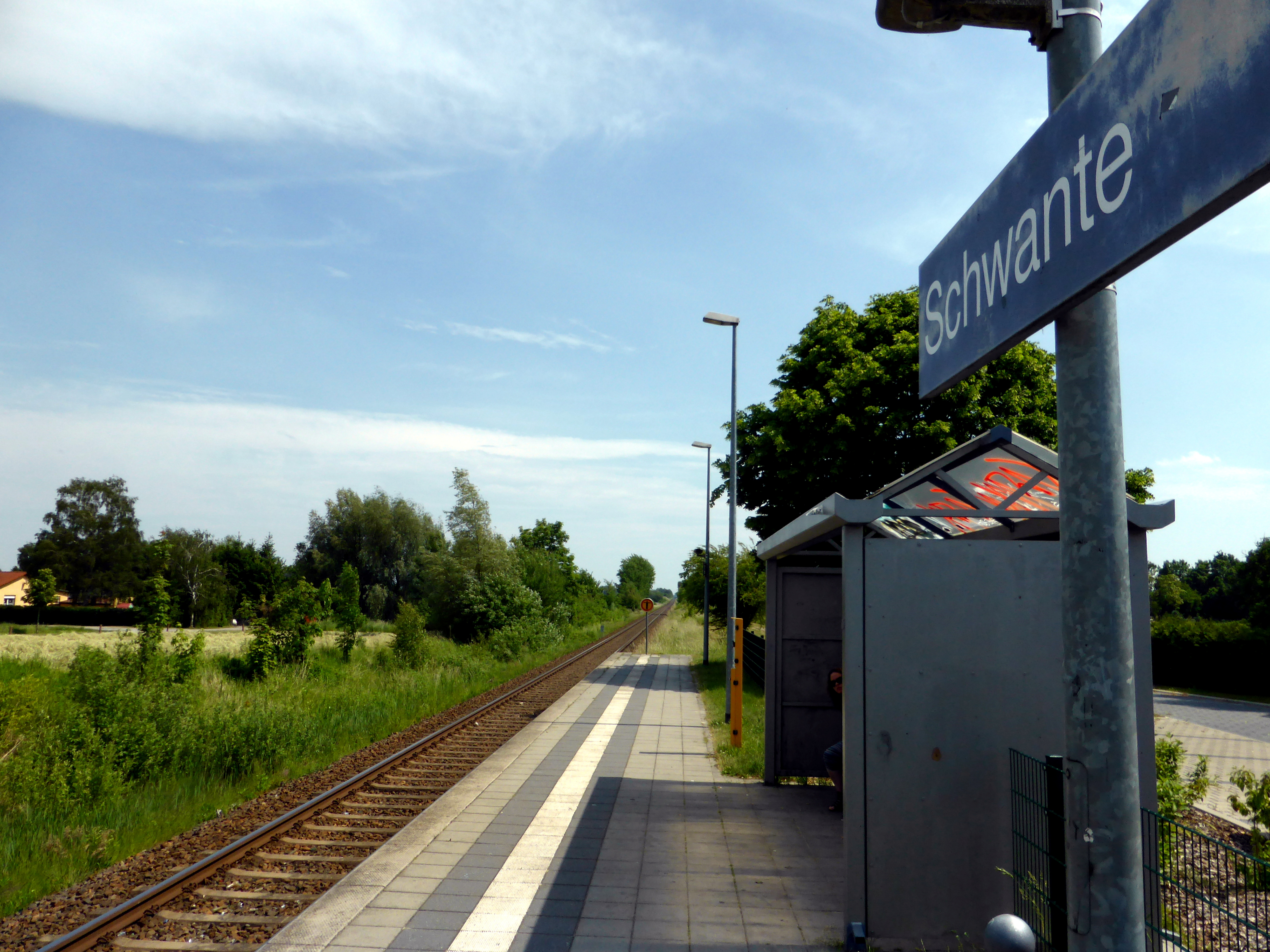 Rail station Schwante